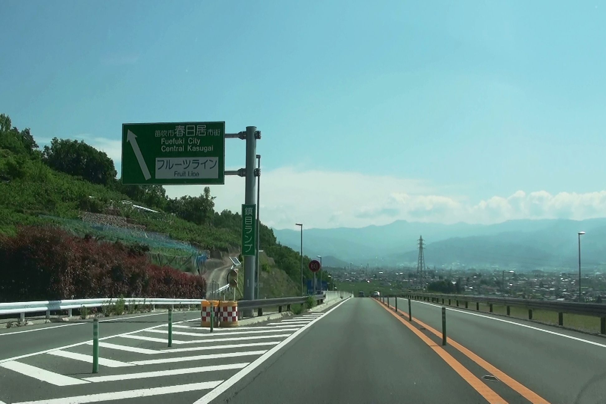 Kofu-Yamanashi road Shizume ramp